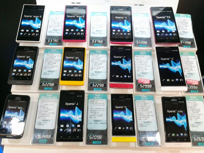 Sony xperia series